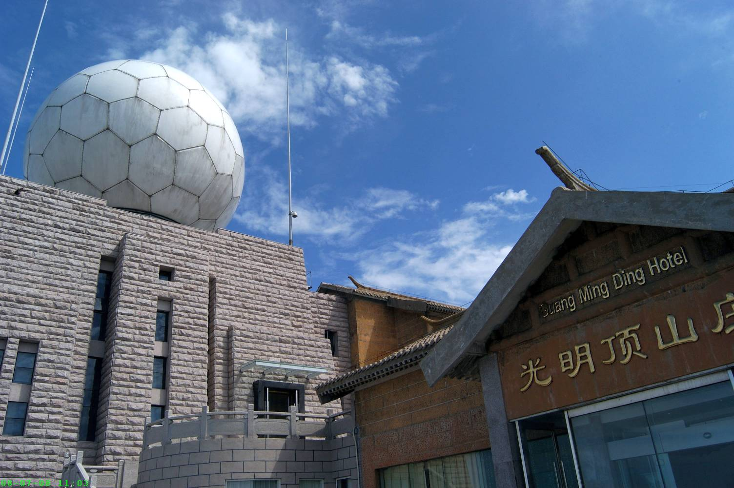 Guang Ming Ding at Huang Shan 黄山光明顶